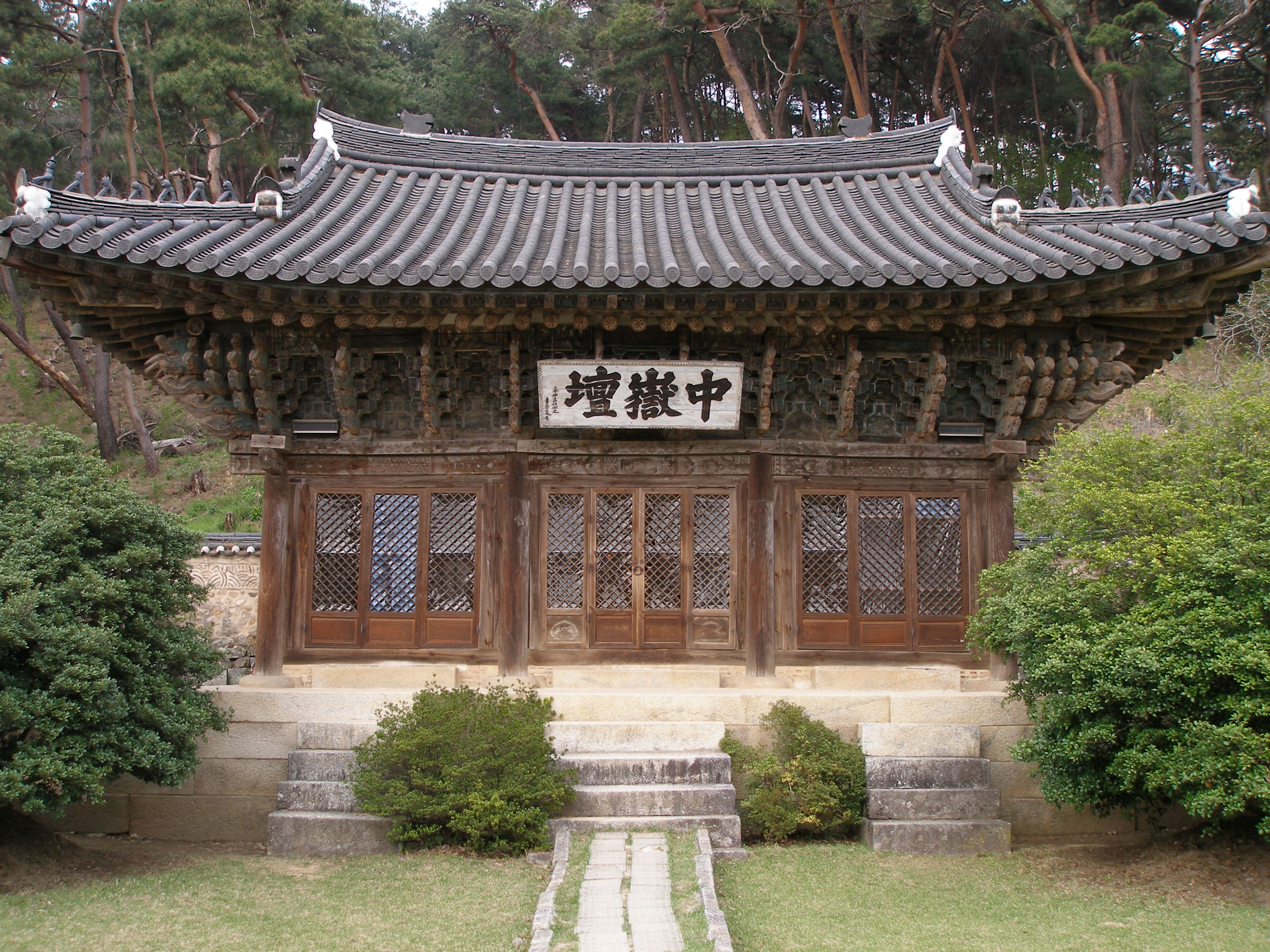 Dungakdan is a sansingak attaced to Sinwonsa that was built in 1394 for offering the mountain god. A mountain god is the spirit protecting the territory of the country and the national energy.